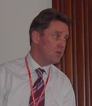 I took this picture of Alan Milburn in October 2002 Rathfelder 00:08, 16 April 2007 (UTC)